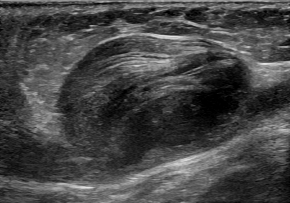 Ultrasonography of over the great saphenous vein a couple of centimeters above the level of the knee of a 67 year old woman with a 4 day history of feeling a lump in the area. It shows a 2.5 cm wide saccular aneurysm along 3 cm of the vein, which was thrombosed, shown as bright layers like those of an onion. There was reflux of a venous valve a couple of centimeters proximally along the vein, indicating chronic venous insufficiency.